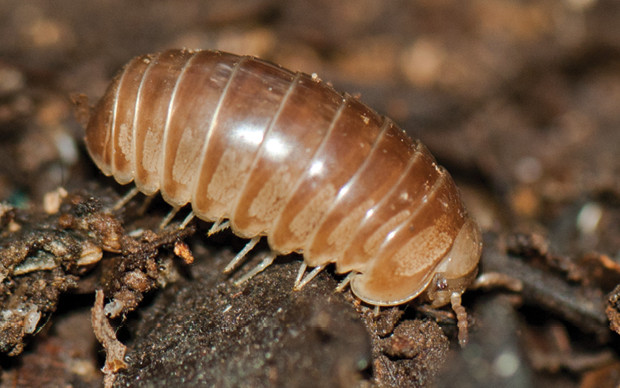 Eupeyerimhoffia archimedis (Strasser, 1965) female. Italy